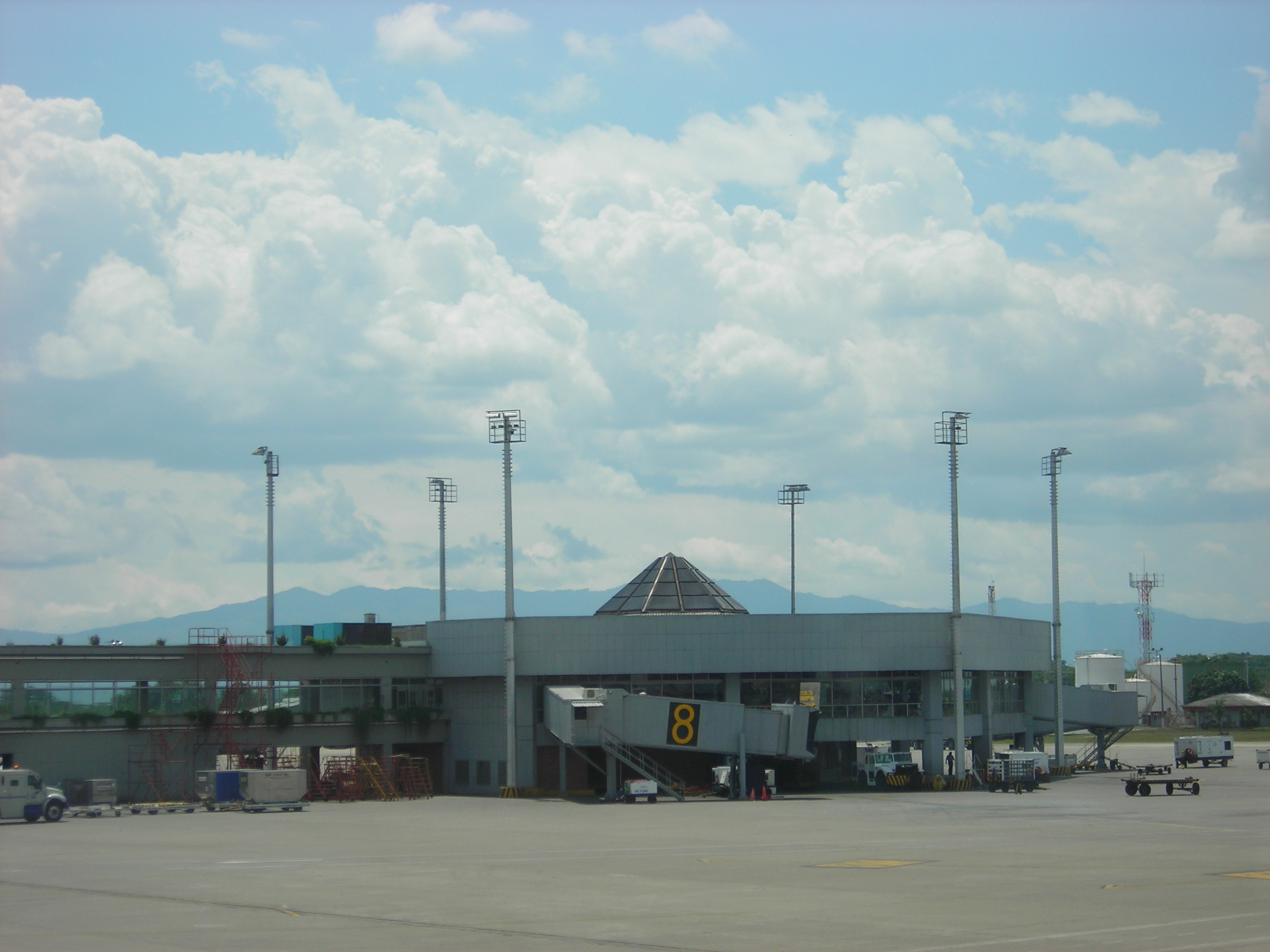 Alfonso Bonilla Aragón International Airport - Gate 8.